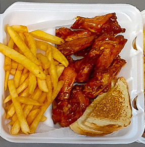 BBQ Chicken Wings From Rodeo Catfish And Wings In Mesquite Texas To Go